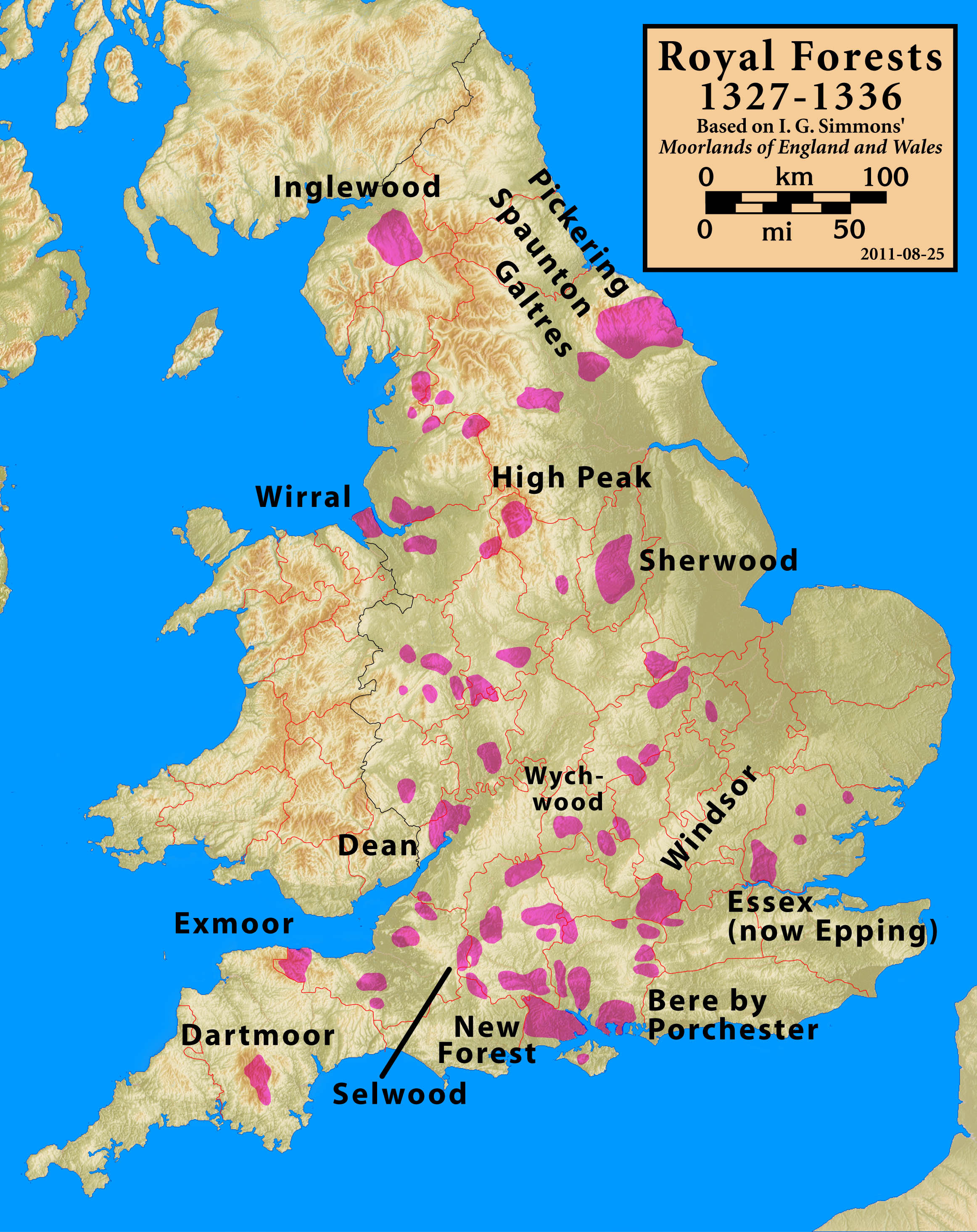 Royal Forests, 1327–1336 (all locations, with names of arbitrarily selected forests)